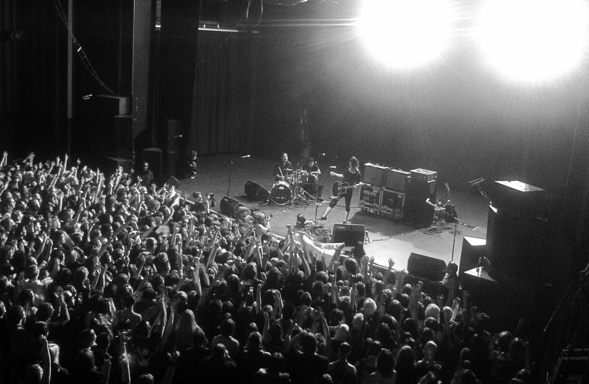 Miyavi's concert in Kentish Town, London, England, on March 29, 2011. Photo by David Boyle.